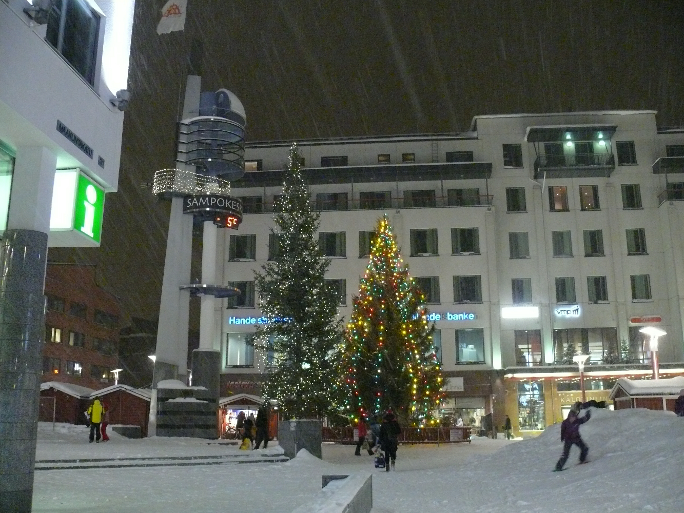 Rovaniemi. Koskikatu.